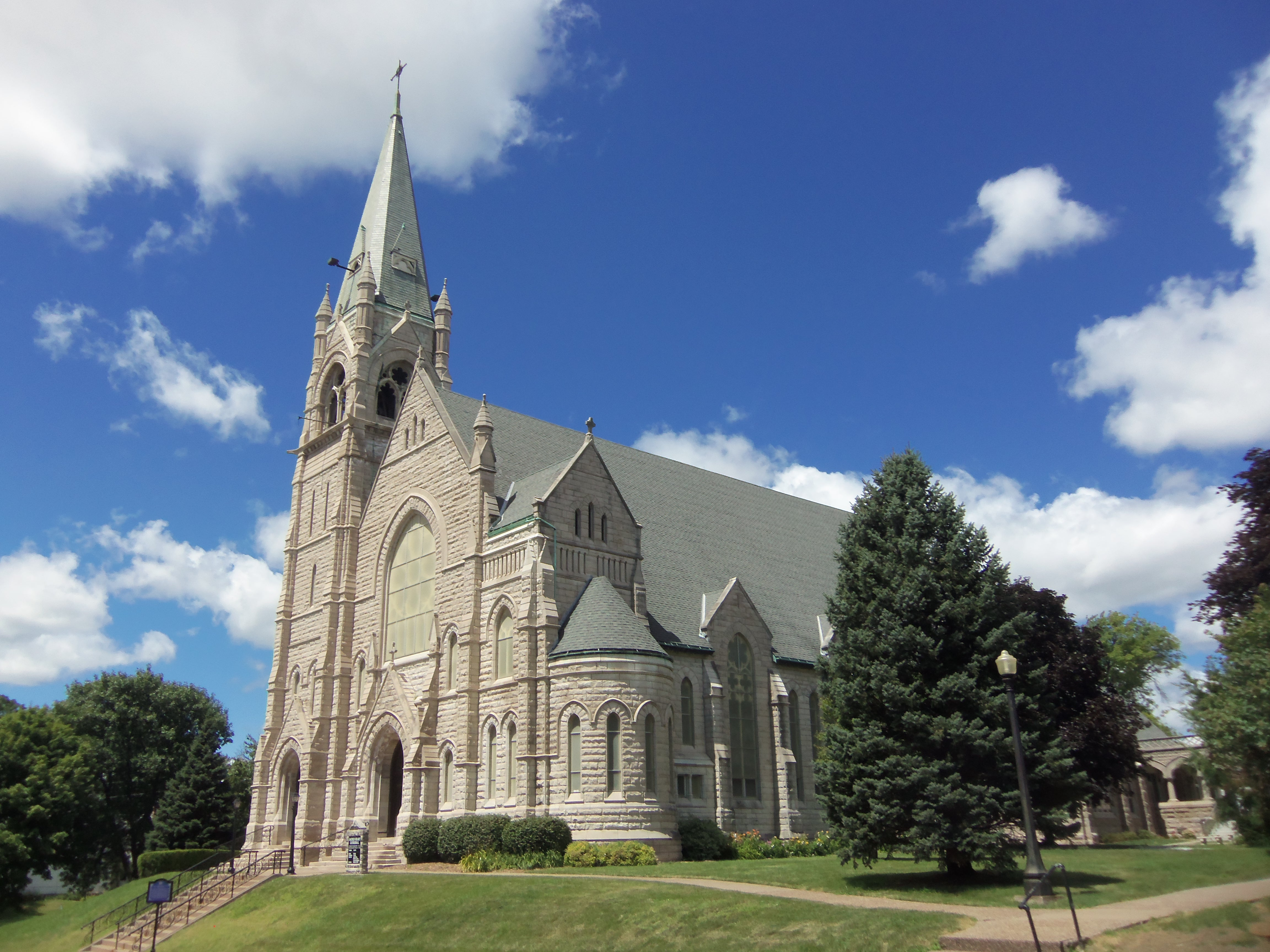 Sacred Heart Cathedral in Davenport, Iowa from the southeast.